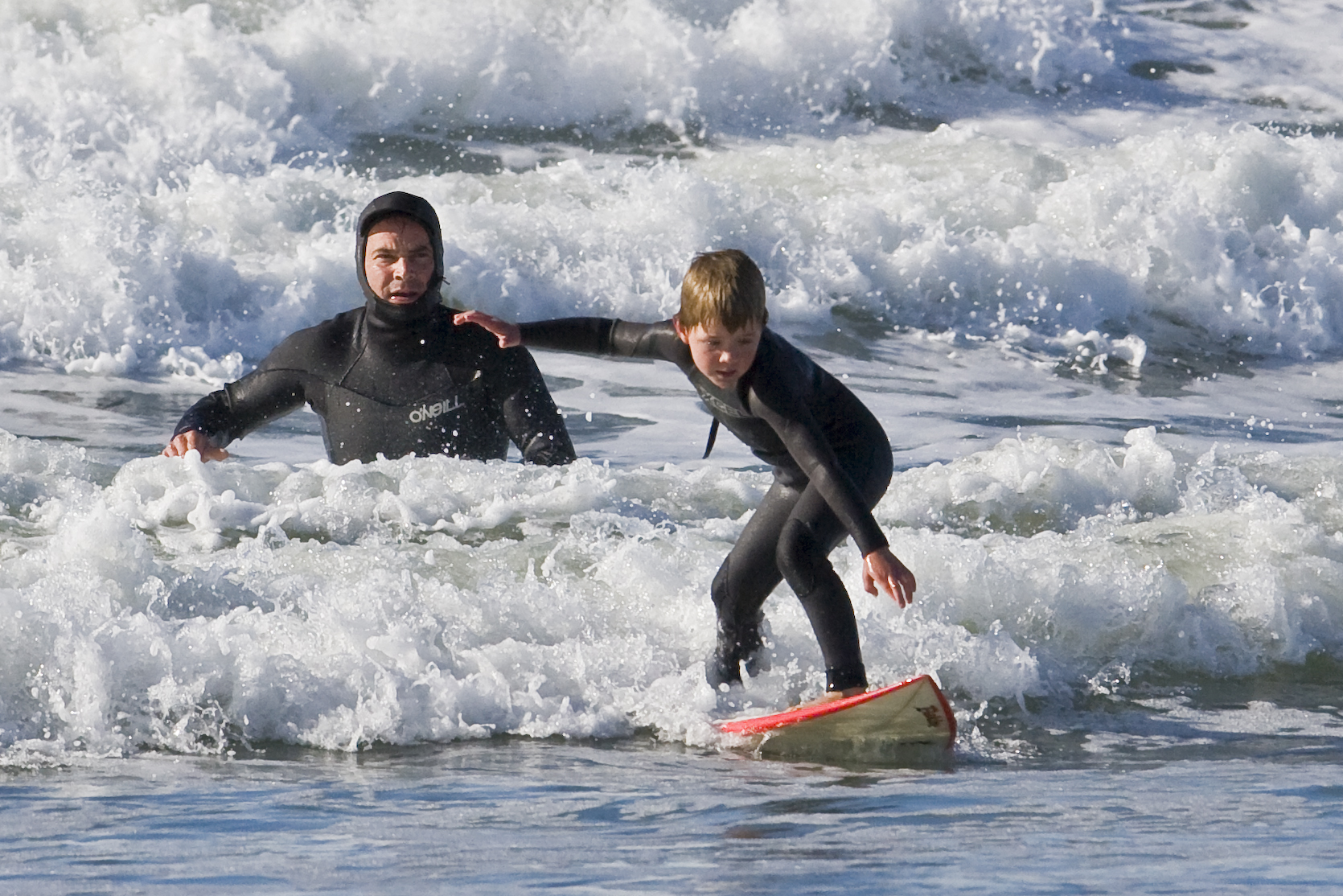 Father and son surf lesson in Morro Bay, CA. NB: The father gave the photographer permission to photograph their entire surf lesson on 21 Dec 2007 Friday 21dec2007 - Photo by Mike Baird, Canon 40D with 300mm f/2.8 IS lens handheld.